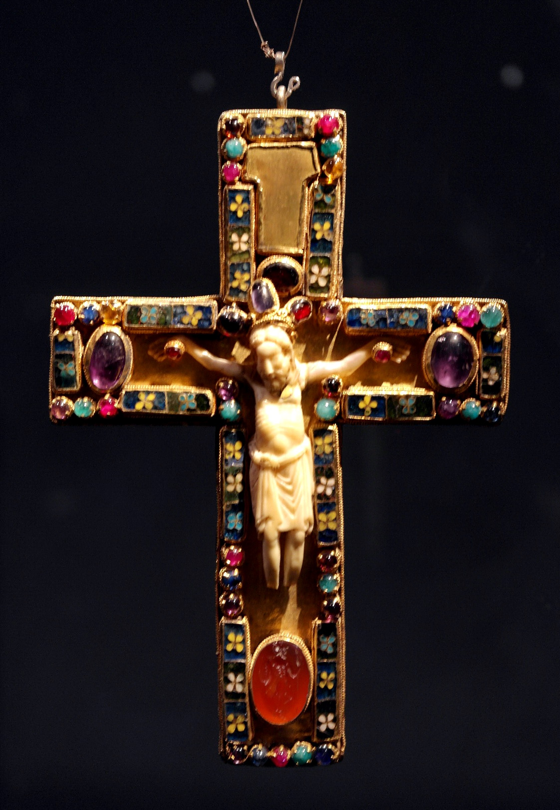 Maastricht, the Netherlands,Treasury of Sint-Servaasbasiliek. The so-called pectoral cross of Saint Servatius, part of the Servatiana collection.